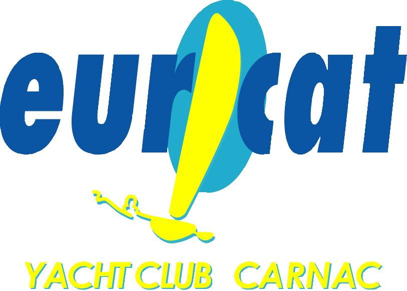 Eurocat Logo